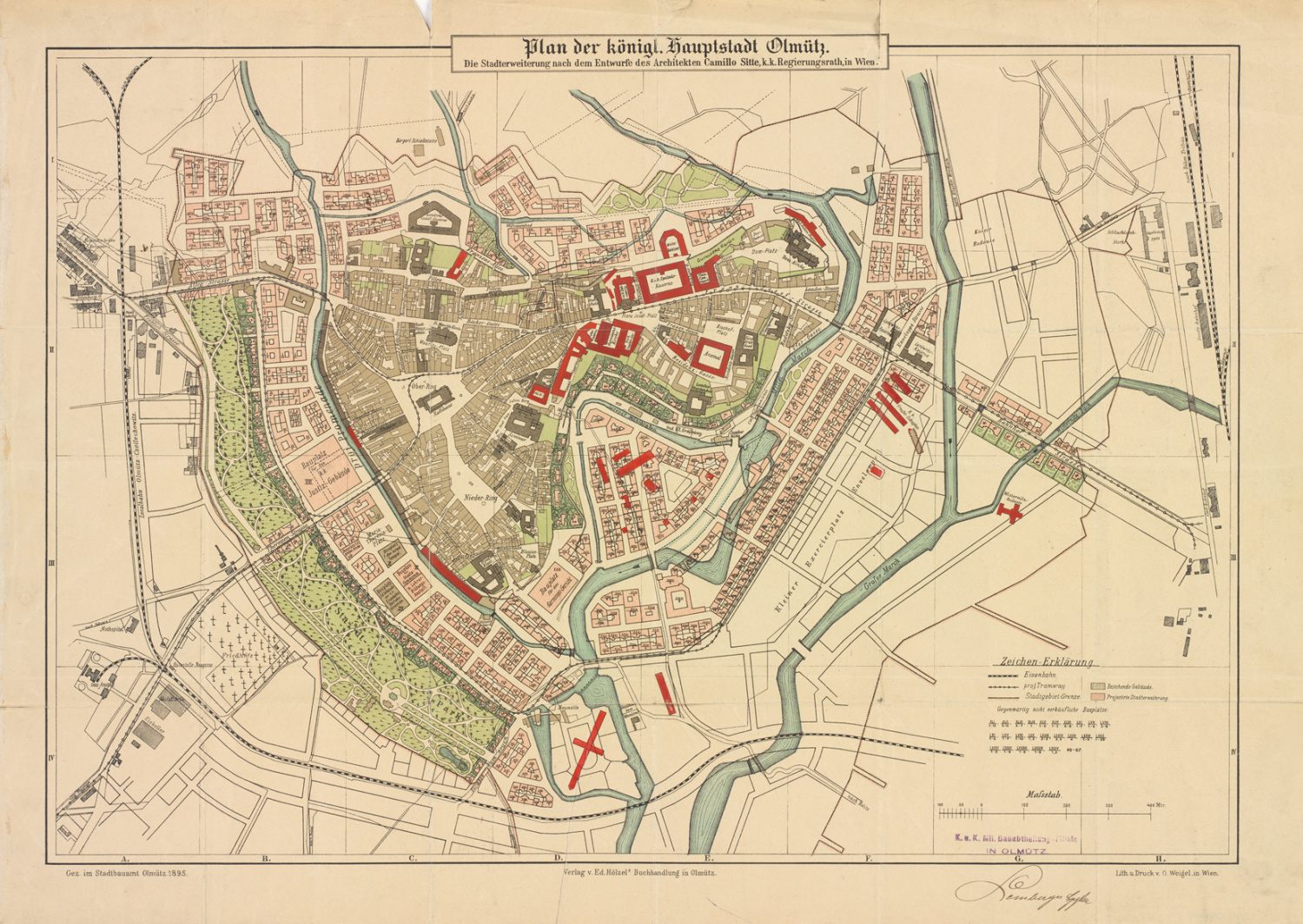 Plan of the Royal Capital City of Olomouc / Expansion of the City according to Camillo Sittes Project colour litography, paper, correction in watercolour 690×990 mm, signed: “Plan der königl. Hauptstadt Olmütz. Die Stadterweiterung nach dem Entwurfe des Architekten Camillo Sitte, k. k. Regierungsrath in Wien. Stadtbauamt 1895/ Verlag v. Ed. Hölzel/ Lith. und Druck v. O. Weigel in Wien”, Olomouc Museum of Art, inv. no. A7